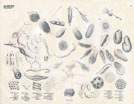 Illustration of class Protozoa, order Infusoria, family Monades by Georg August Goldfuss (1782 – 1848). Goldfuss invented the term 'Protozoa'.